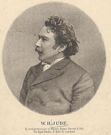 Photograph of the English composer W. H. Jude